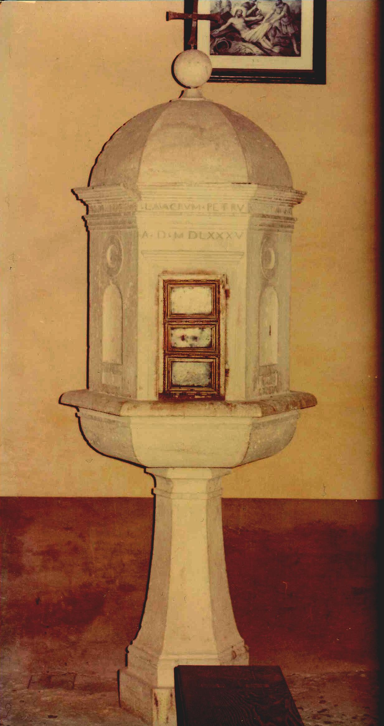 Baptismal font, commissioned by Mario Amerighi in 1585; located in the church of Saint Blaise in the Castle of Vignoni (San Quirico d'Orcia), where the photo was taken; moved, in the late 1970s, in the Collegiata of San Quirico d'Orcia